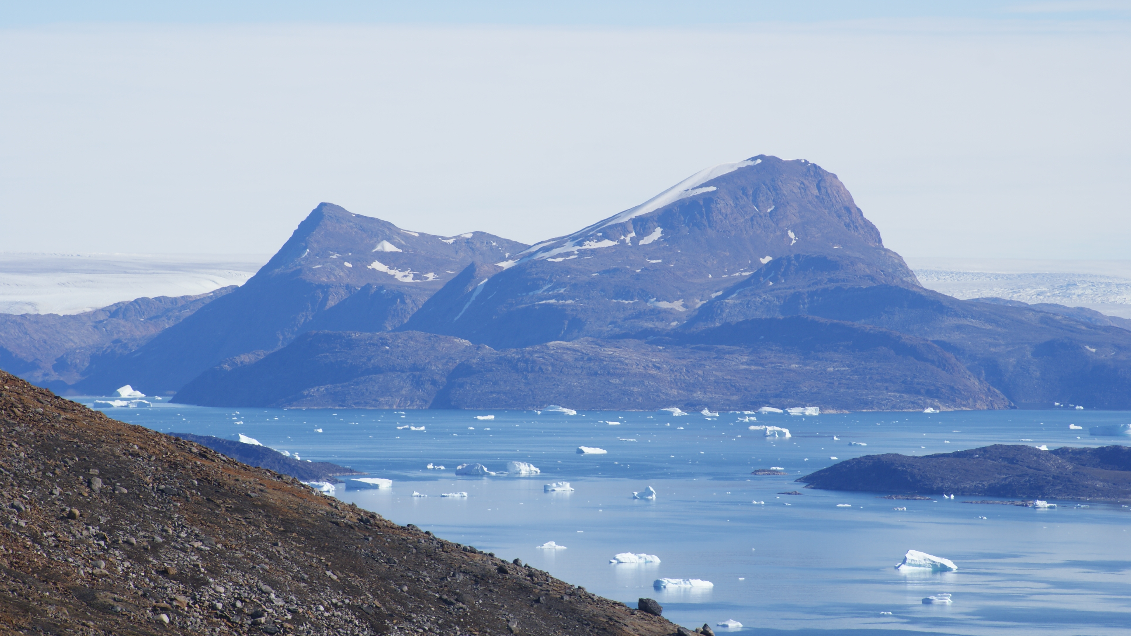 Anoritooq mountain (1,108m), Upernavik Archipelago, Greenland.